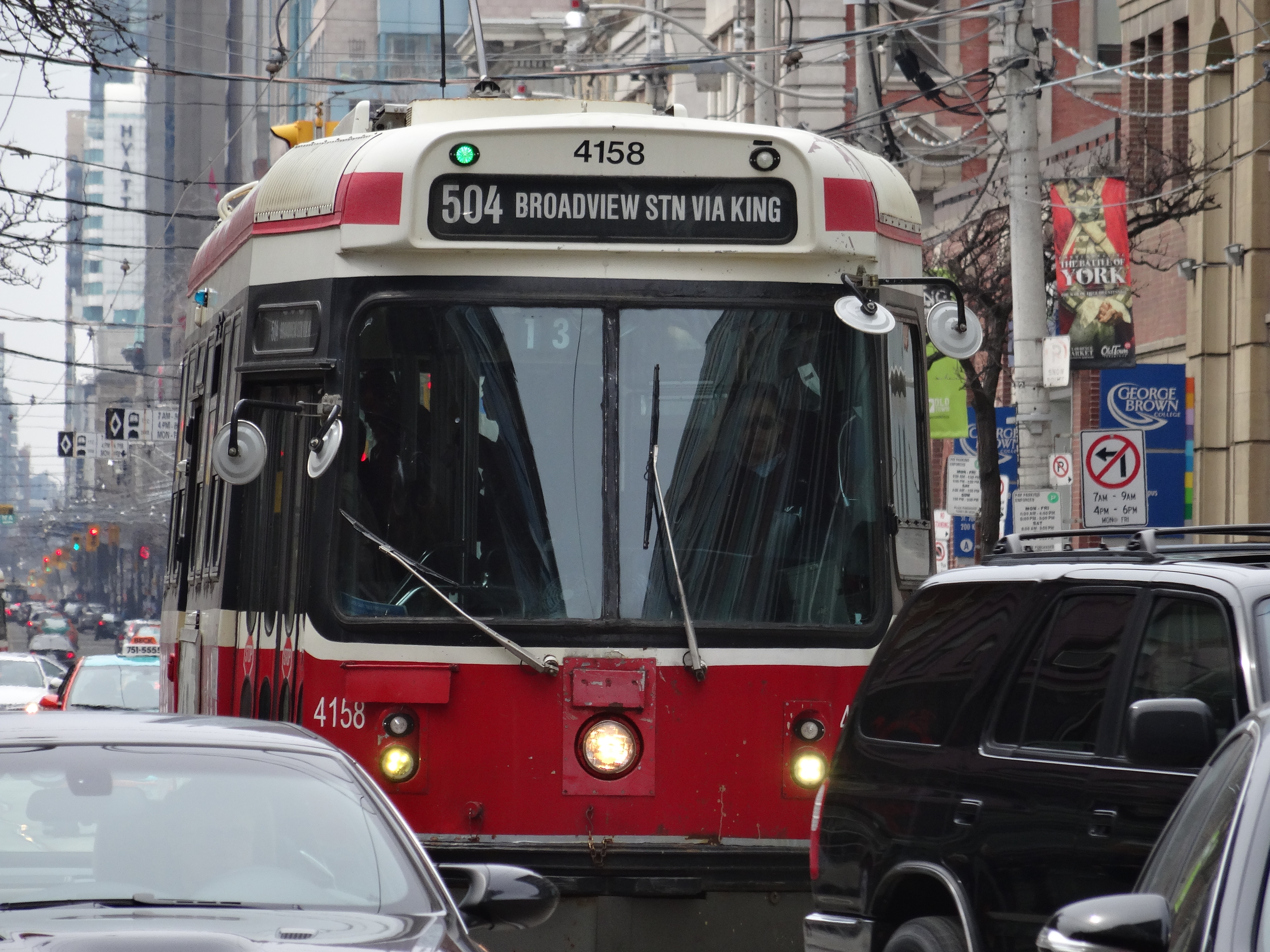 Streetcar on King, 2015 04 03 (12).JPG